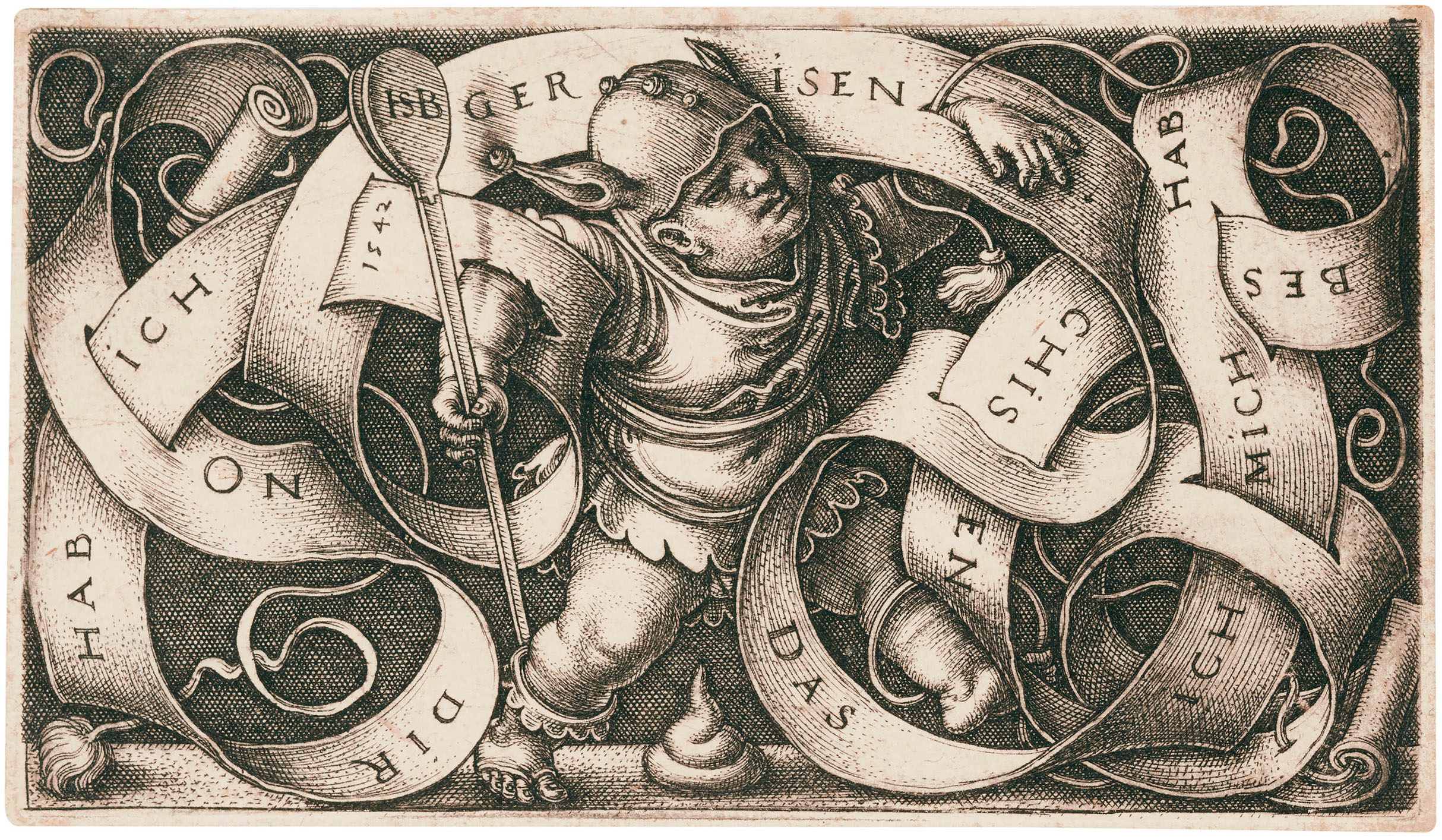 Beham, (Hans) Sebald (1500-1550): Der kleine Narr (The Little Fool). Engraving. 4.4 X 8.1 cm. 1542. B. 230, Pauli, Holl. 234 ii/ii, with the third diagonal hatching in the background.